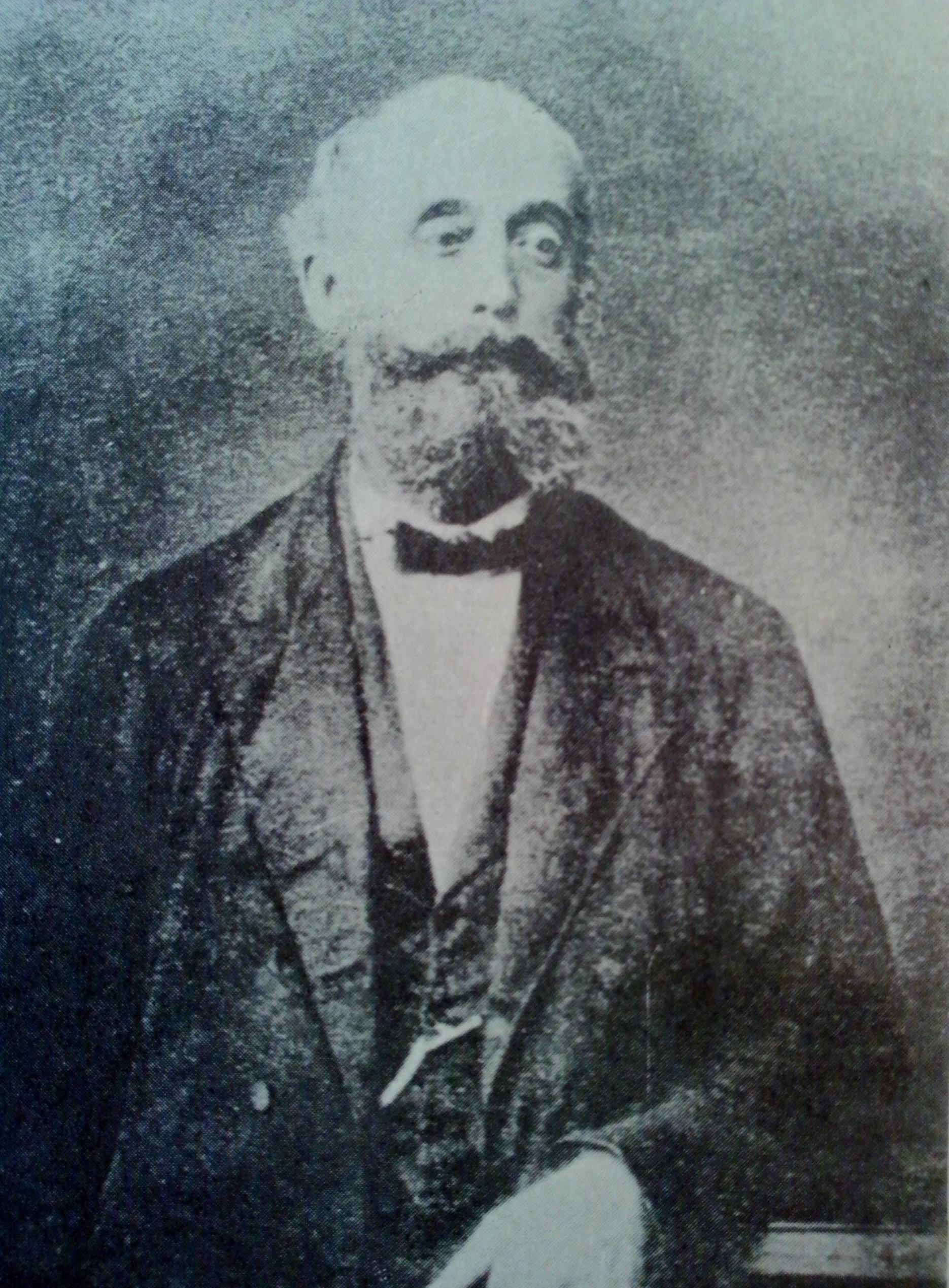 Thomas Chisolm Anstey, member of British Parliament, writer, Attorney General of Hong Kong